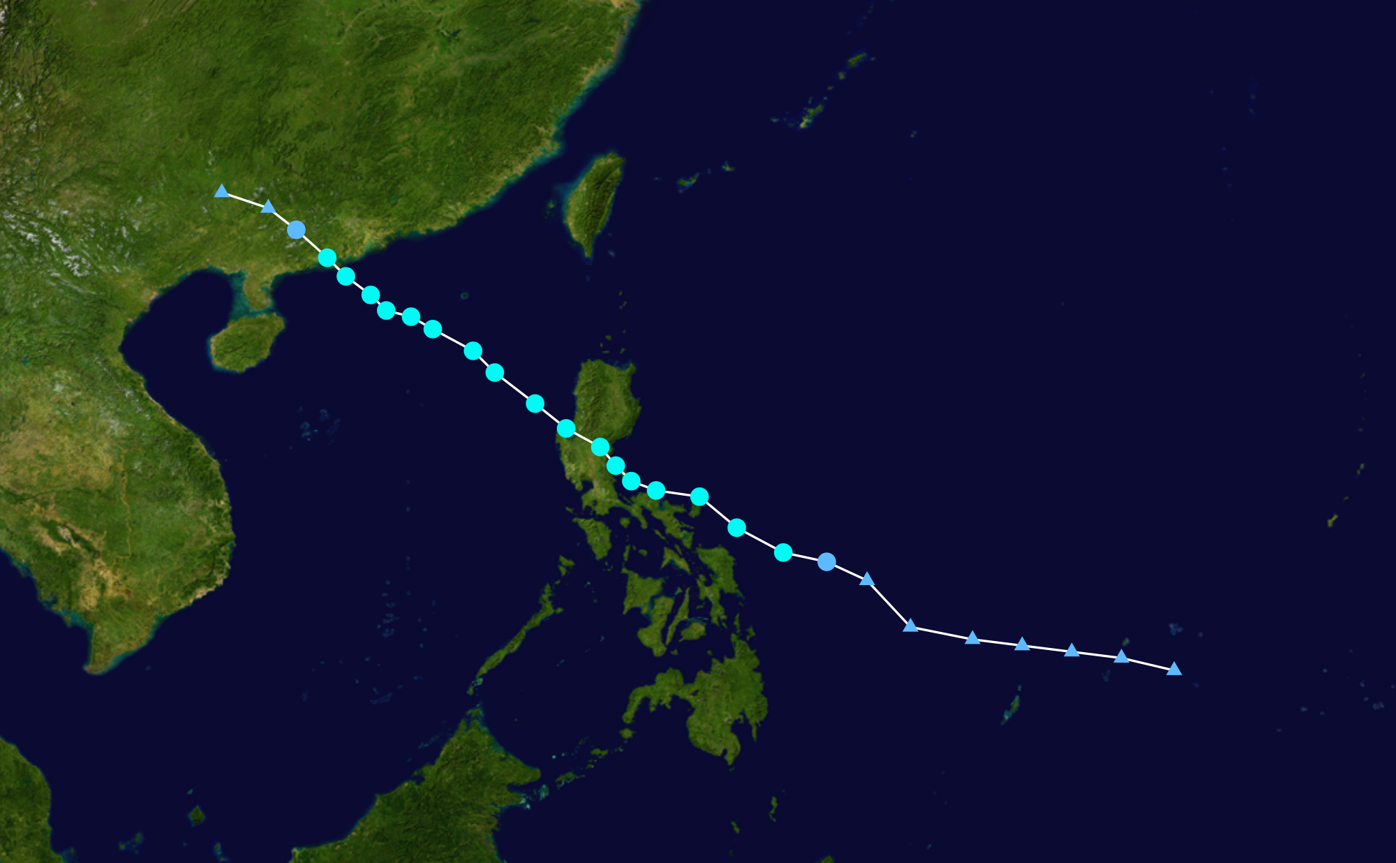 Tropical Storm Lynn 1981 track. Uses the color scheme from the Saffir-Simpson Hurricane Scale.